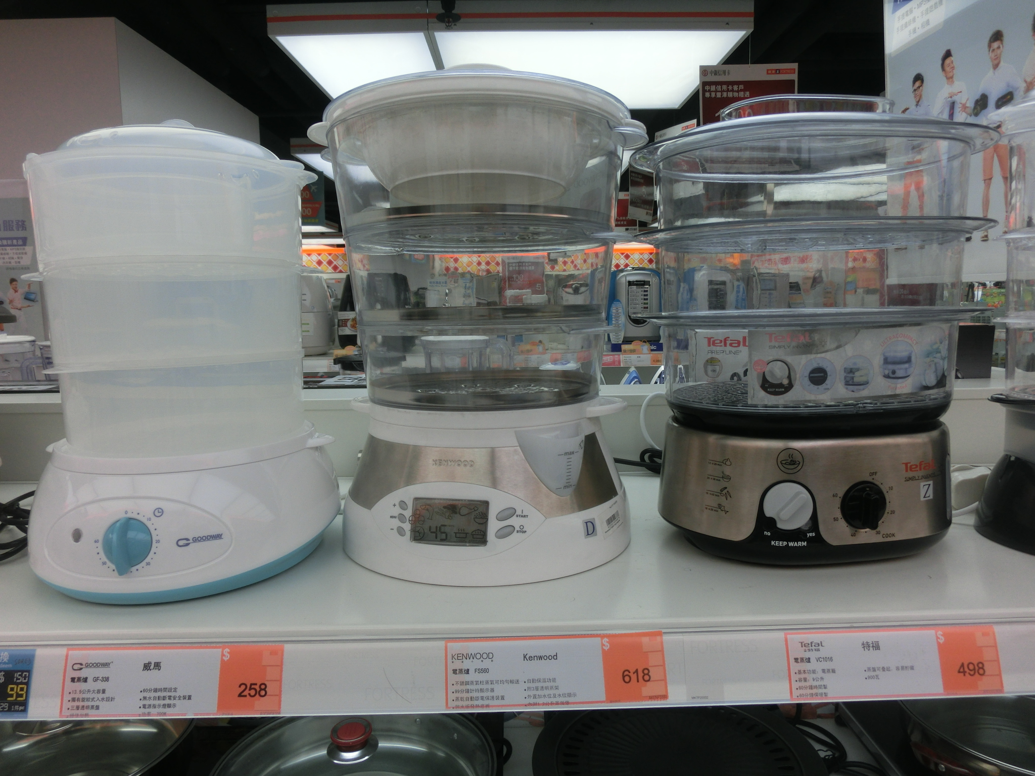 怡安中心, Greenwich Centre, Fortress Hill, North Point, Hong Kong